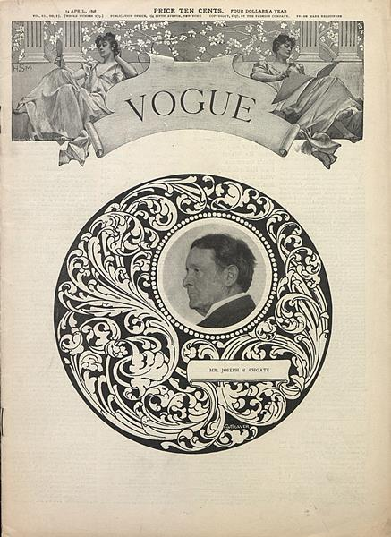 Vogue Magazine Cover (14 Apr 1898)